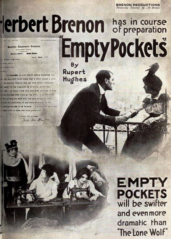 Advertisement for the forthcoming American mystery film Empty Pockets (1918) with Bert Lytell and Barbara Castleton, on page 5 of the October 20, 1917 Exhibitors Herald.